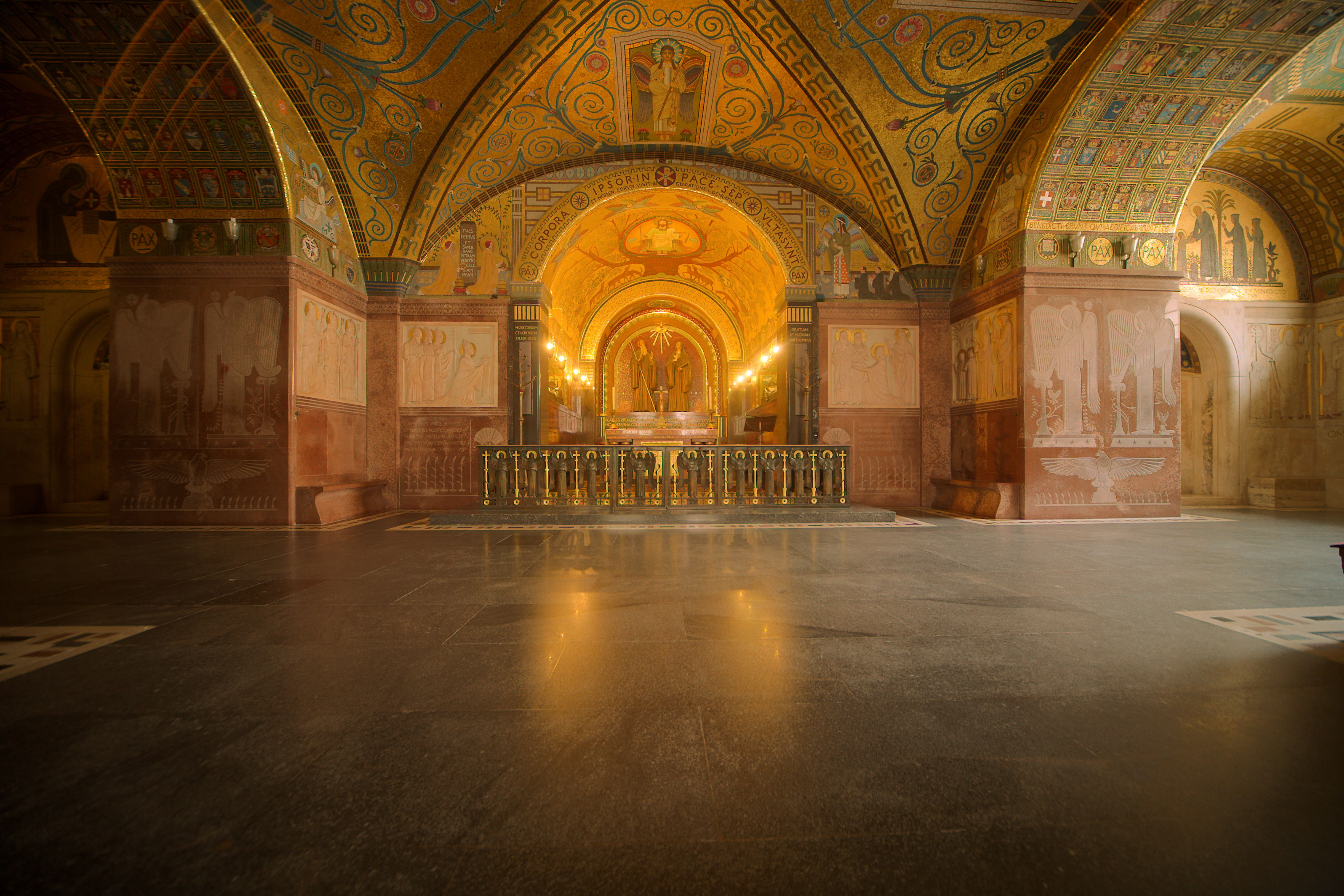 Template:Crypt of Monte Cassino